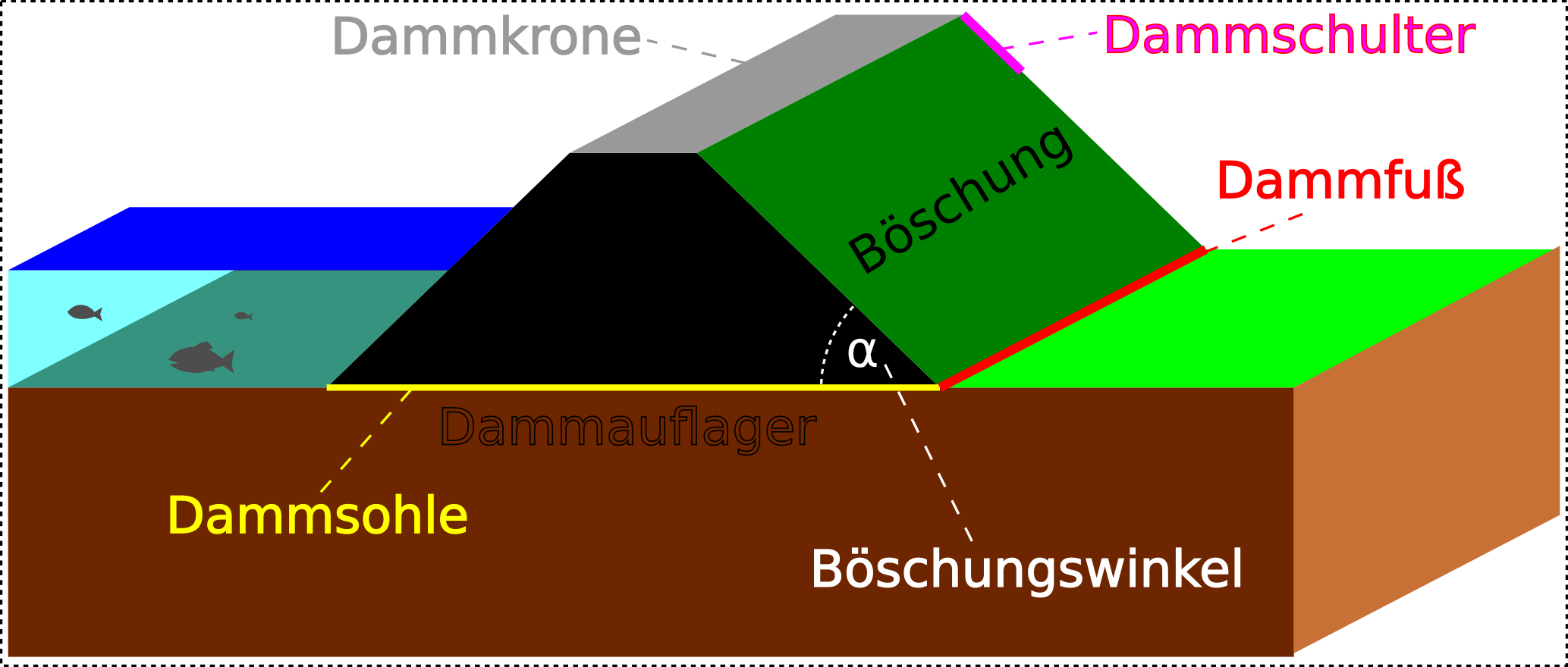 Embankment dam